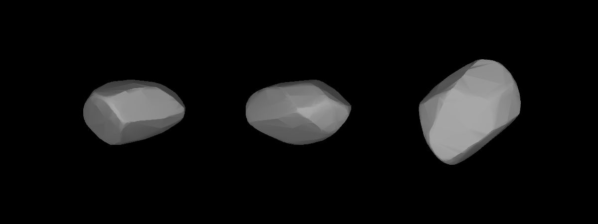 A three-dimensional model of 152 Atala that was computed using light curve inversion techniques.